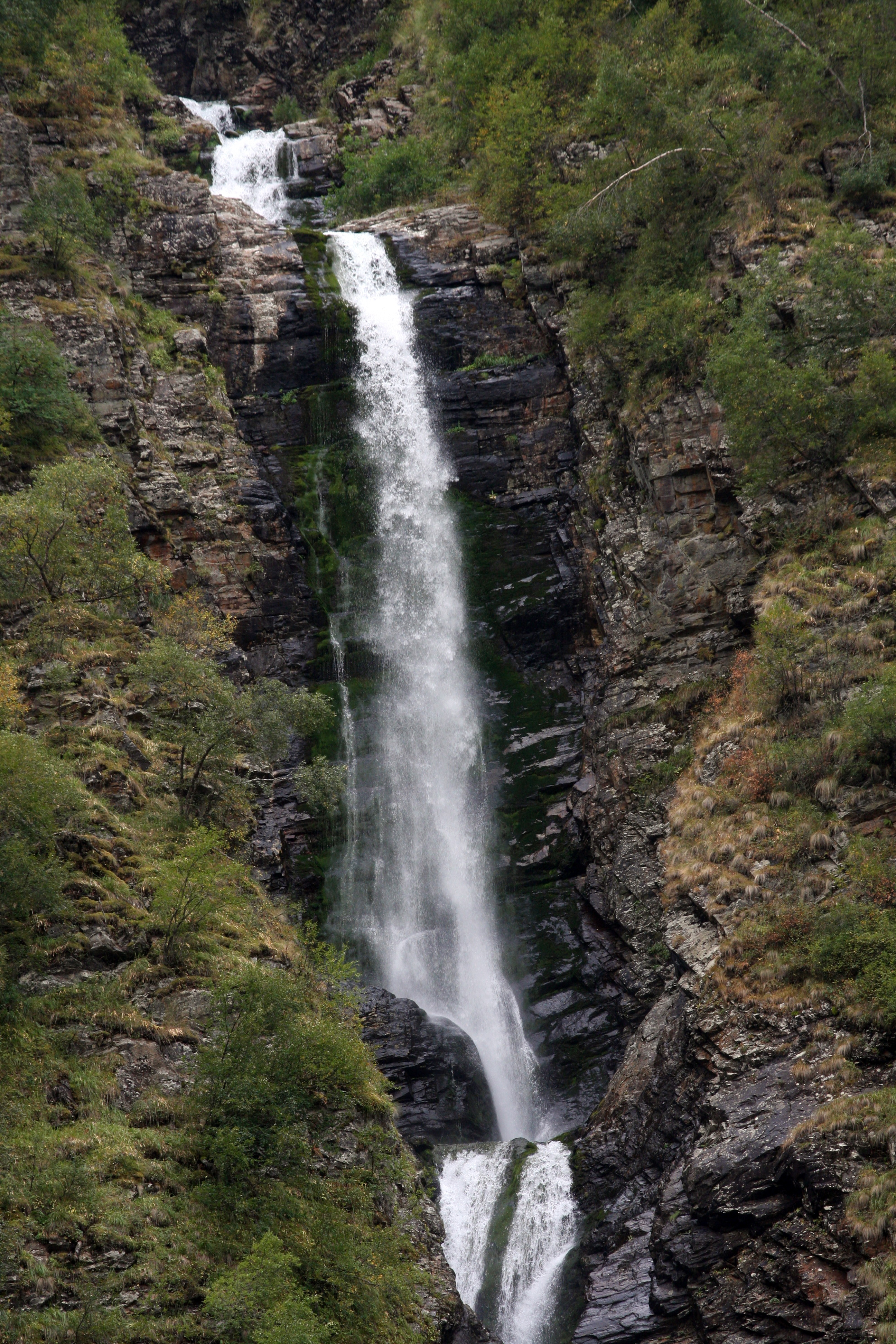 ჩანჩქერი ხდის ხეობაში